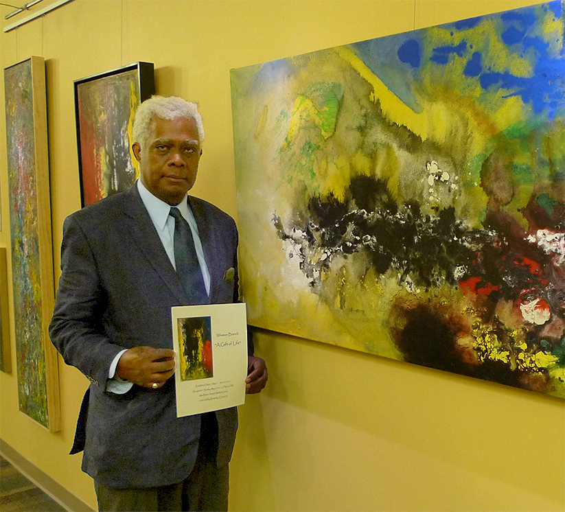 Winston Branch displaying the invitation to his painting exhibition at Alta Bates in Oakland, CA. Mr. Branch is a British painter, born in St. Lucia, who has works in the collections of Tate Britain, The Legion of Honor De Young Museum San Francisco CA, and the St. Louis Museum of Art MO. The painting (right) is entitled "Sunrise on Bodega Bay".